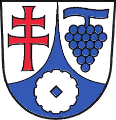 Coat of Arms of Pferdingsleben